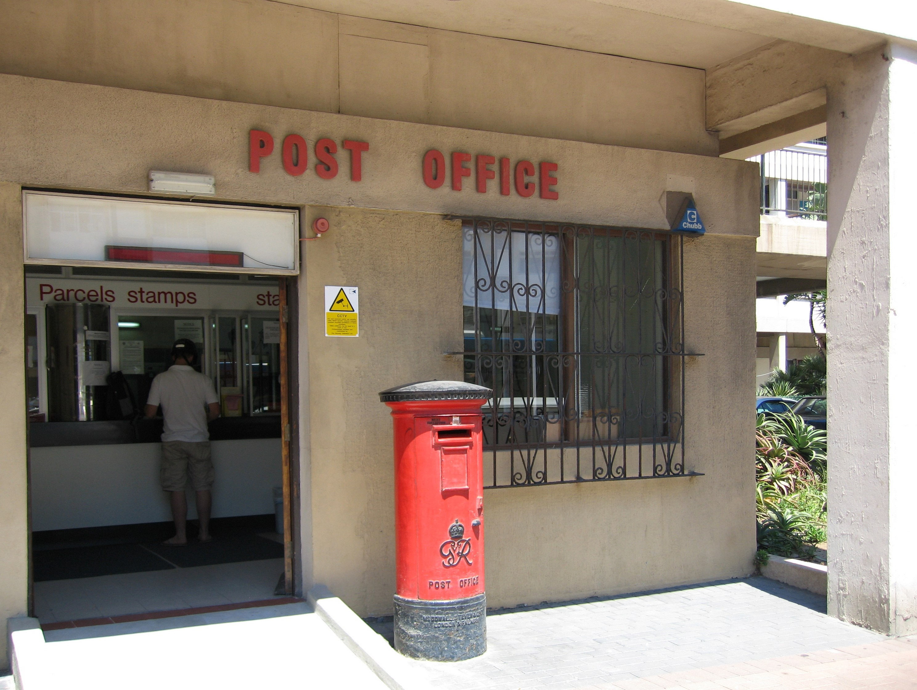 District post office of the Royal Gibraltar Post Office at Glacis Road, Gibraltar.